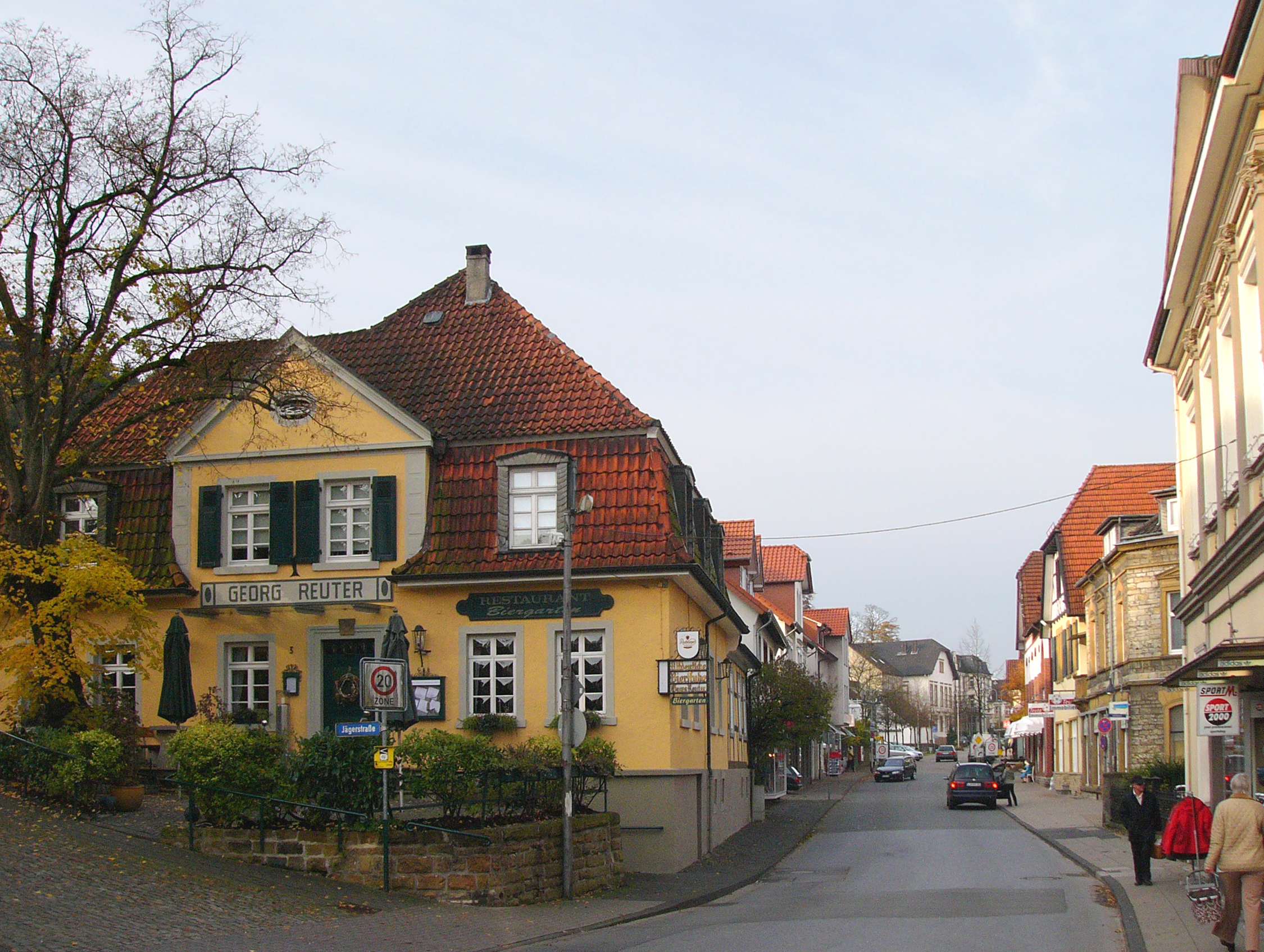 Main Street in Oerlinghausen, Germany